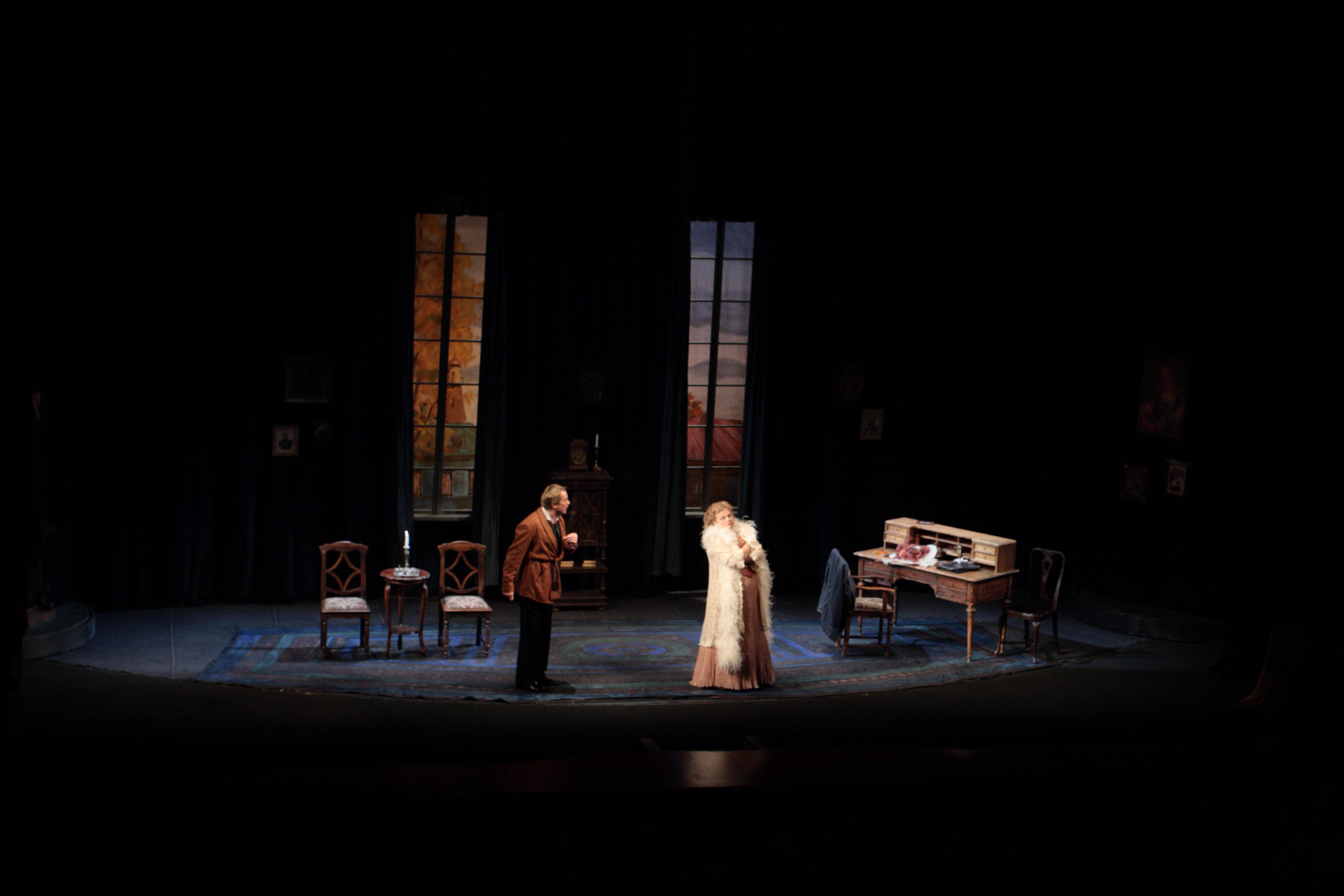 Maly Theatre. Enough Stupidity in Every Wise Man. E.D.Glumov (A.V.Vershinin) and K.L.Mamaeva (I.V.Muravyova).jpg